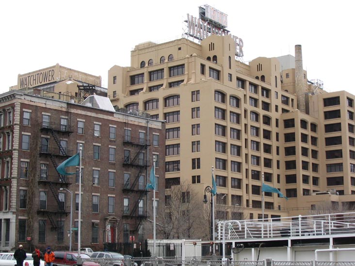 Watch Tower Bible and Tract Society Headquarters.